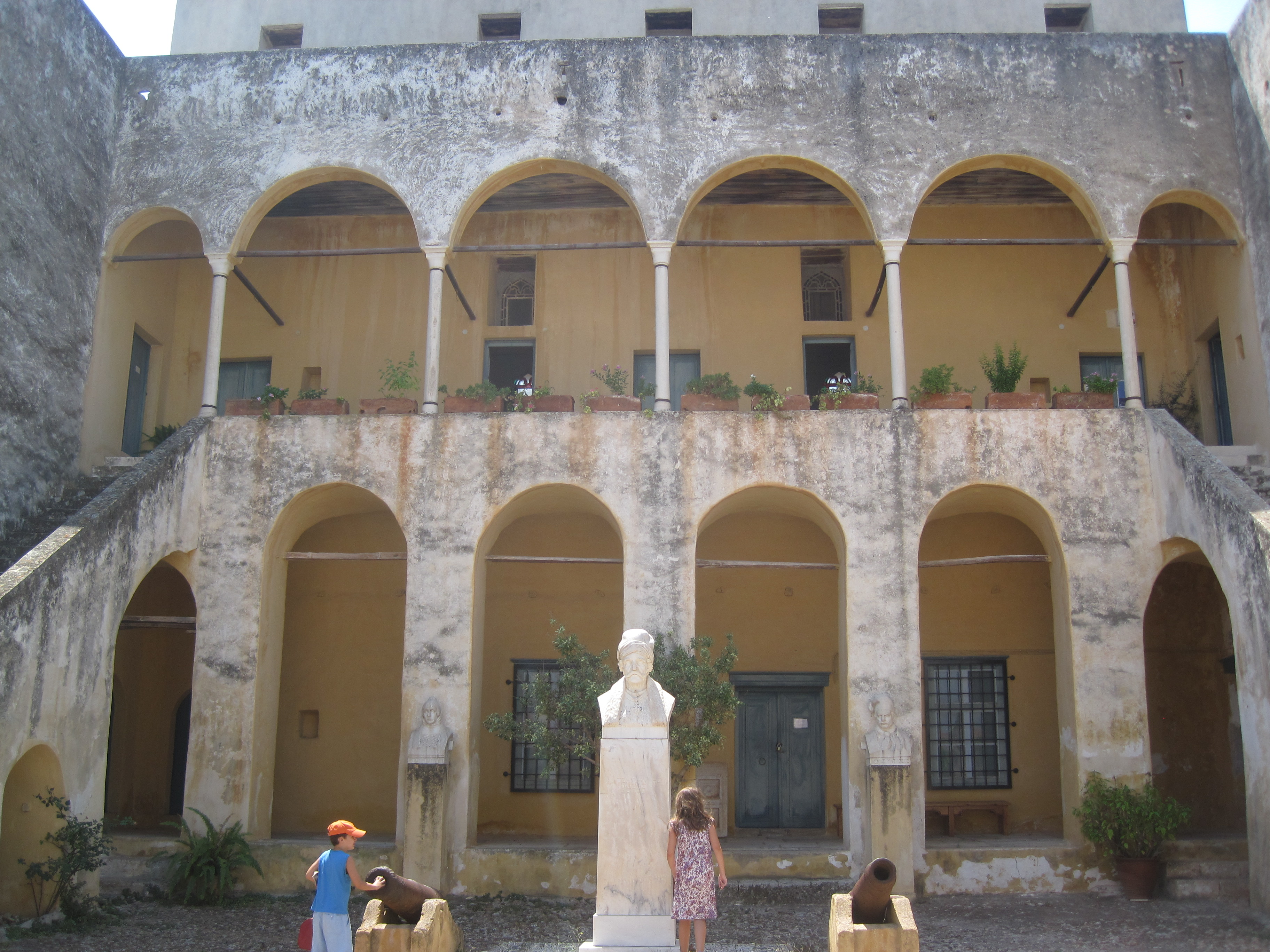 Spetses